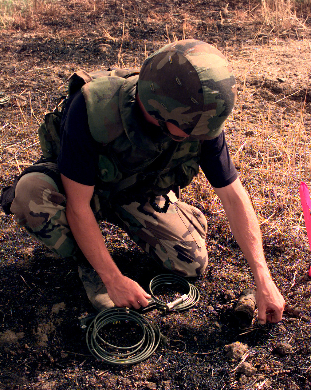 Senior Airman Timothy Stimpson, U.S. Air Force, prepares an unexploded BLU-97 bomblet for demolition in a field outside of Urosevac, Kosovo, on Aug. 10, 1999. Stimpson is from the 4th Civil Engineer's Squadron (Explosive Ordnance Disposal), Seymour Johnson Air Force Base, N.C., and is deployed to Kosovo as part of KFOR. KFOR is the NATO-led, international military force in Kosovo on the peacekeeping mission known as Operation Joint Guardian.